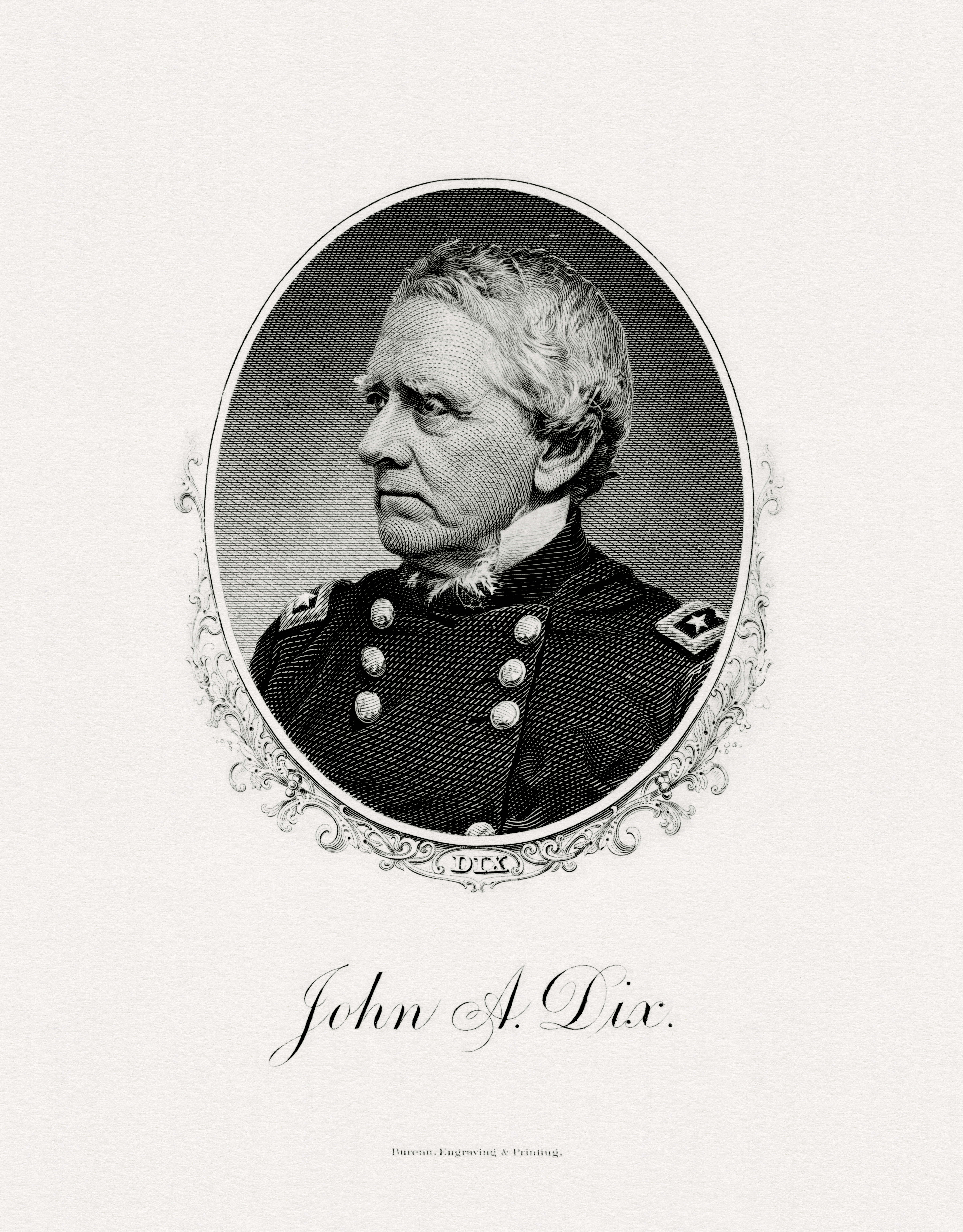 Engraved BEP portrait of U.S. Secretary of the Treasury John Adams Dix